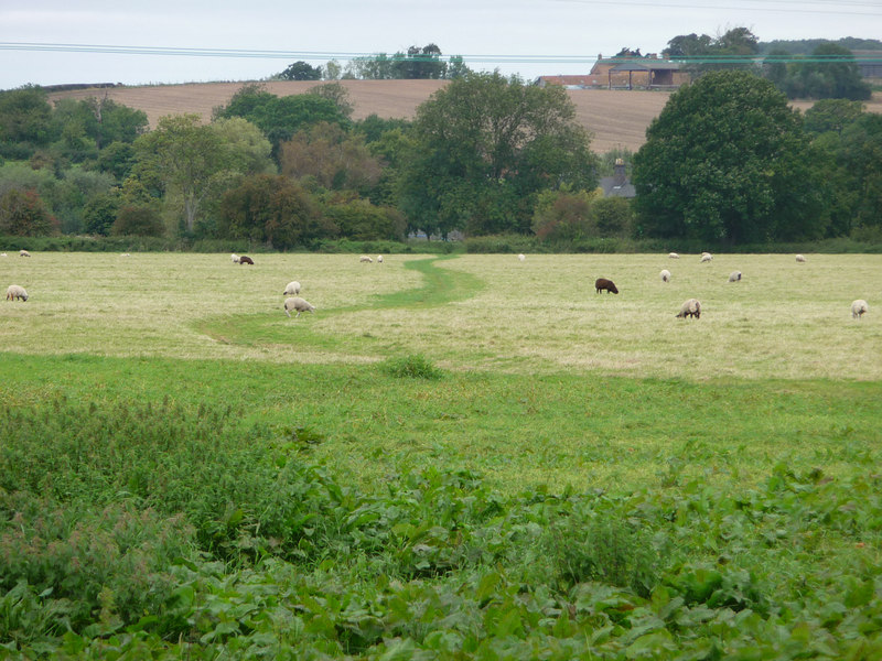 Path across Severn Ham